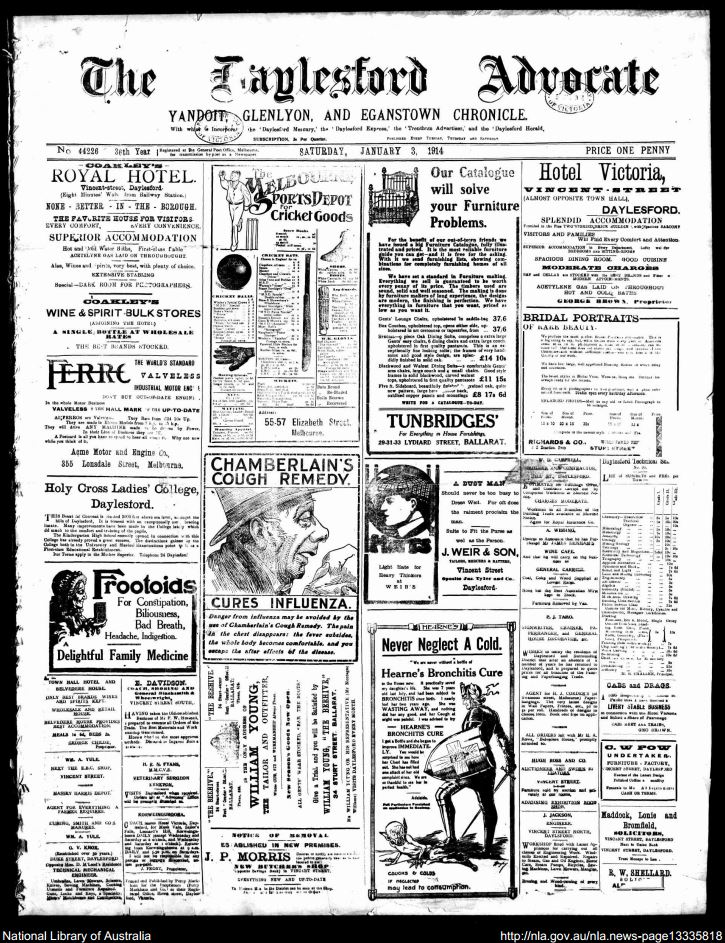 Front page of Daylesford Advocate